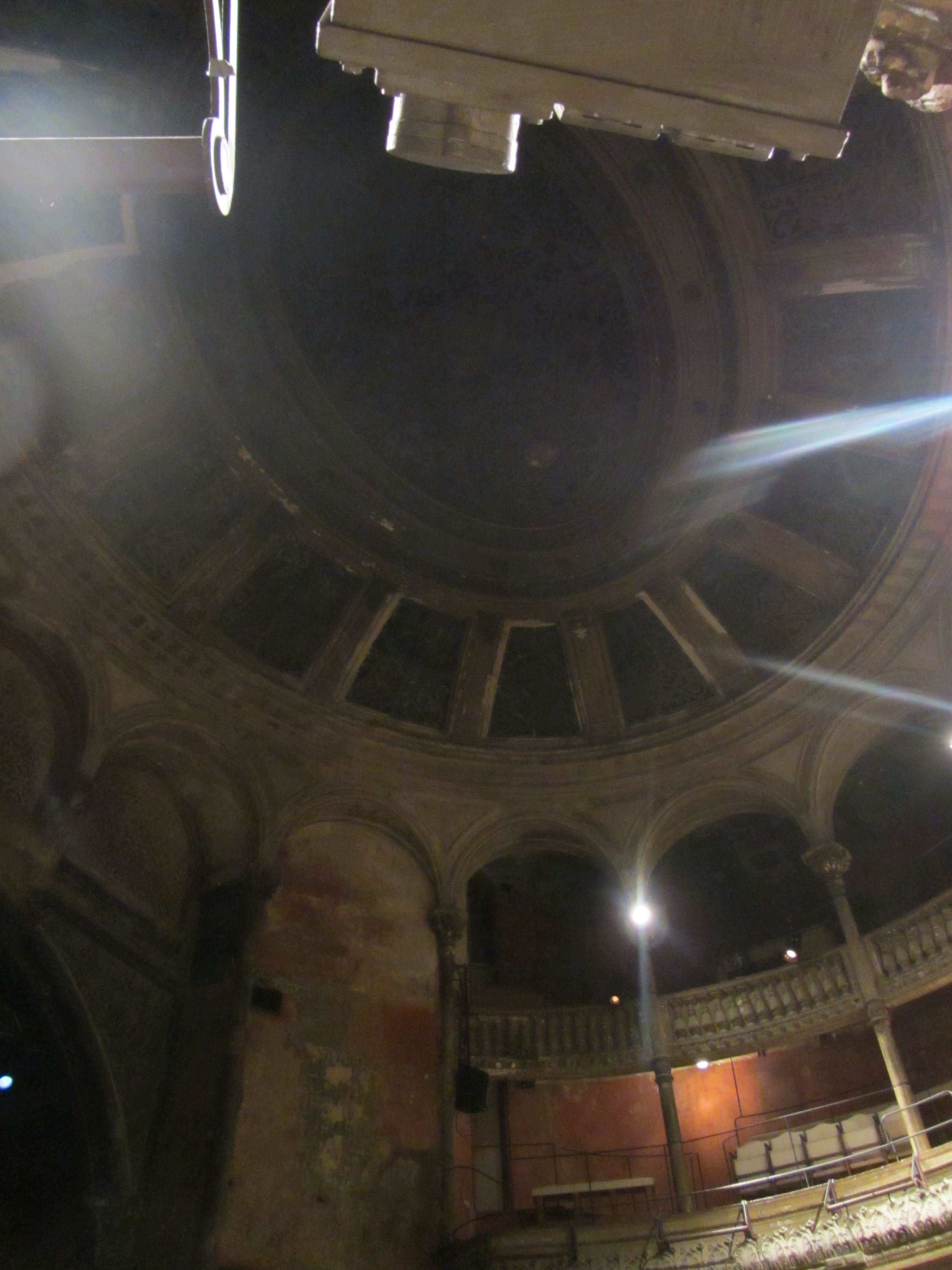 This document was produced using the Canon PowerShot SX230 HS lent by Wikimedia France.